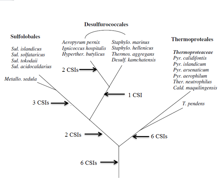 Phylogenetic relationship of two phyla belonging to the kingdom Archaea. CSIs supporting the branching order are indicated